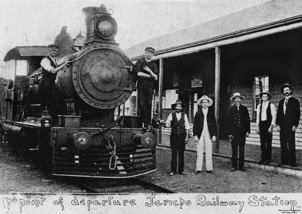 Engine drivers standing on the steam train at Jericho Railway Station, Queensland, 1908. Steam train outside the Jericho Railway Station with the engine drivers standing on the train. Group of men looking on from the Jericho Railway Station Platform.